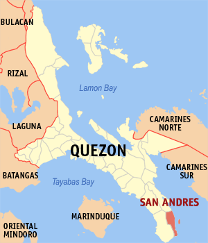 Map of Quezon showing the location of San Andres